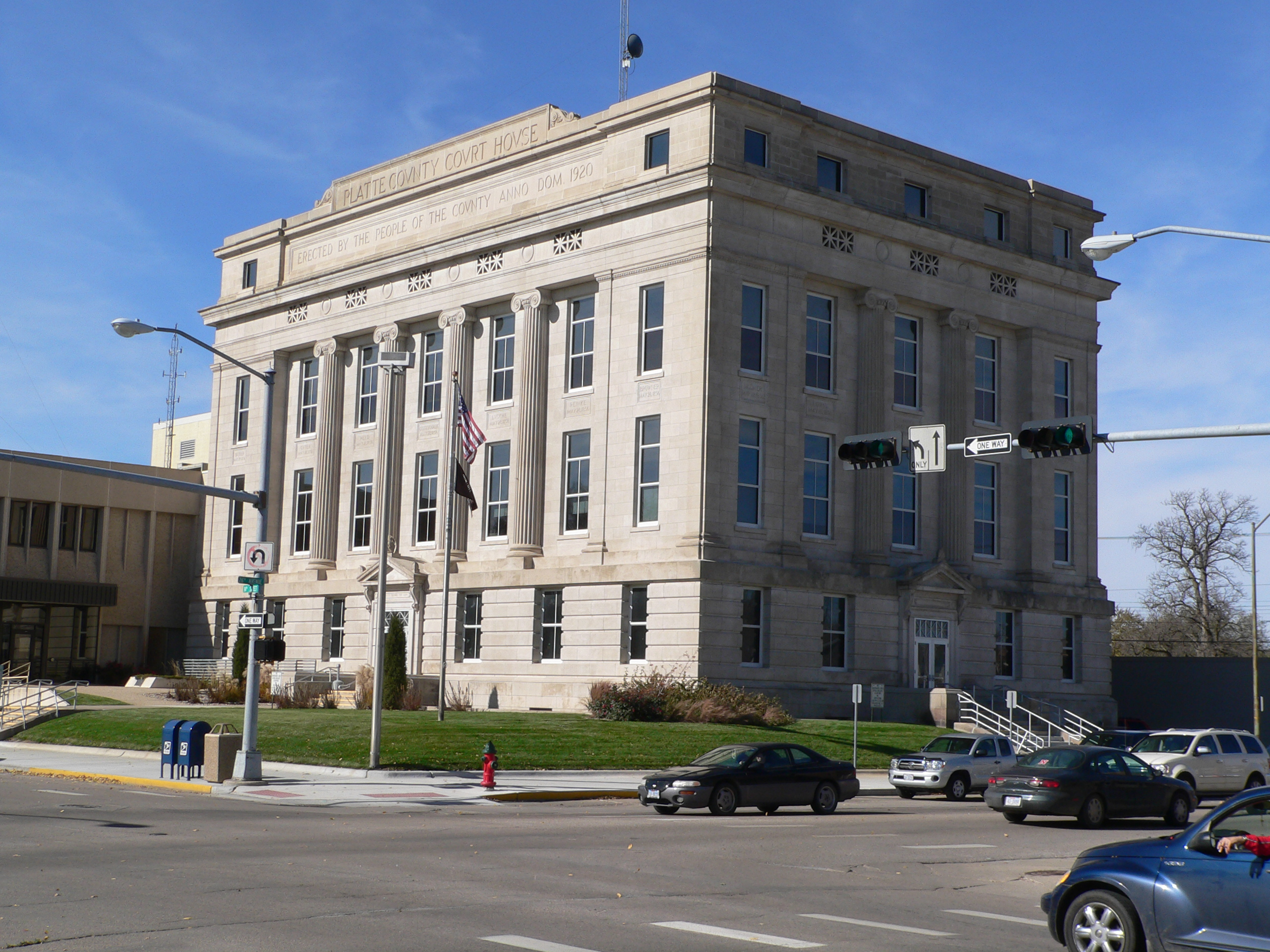 The Platte County Courthouse at 2610 14th St, Columbus, Nebraska. The building was constructed in 1920. It was designed in the Classical Revival style by architect Charles Wurdeman. The building is on the National Register of Historic Places. With a newer addition, it continues to serve as the courthouse.